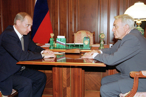 THE KREMLIN, MOSCOW. President Vladimir Putin with Igor Spassky, member of the Russian Academy of Sciences, director general of the Rubin central naval technical design bureau.